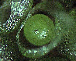 Female plant of Sphaerocarpos texanus, showing top view of calyptra of containing young sporophyte. Specimens collected in Alameda Co., California, USA